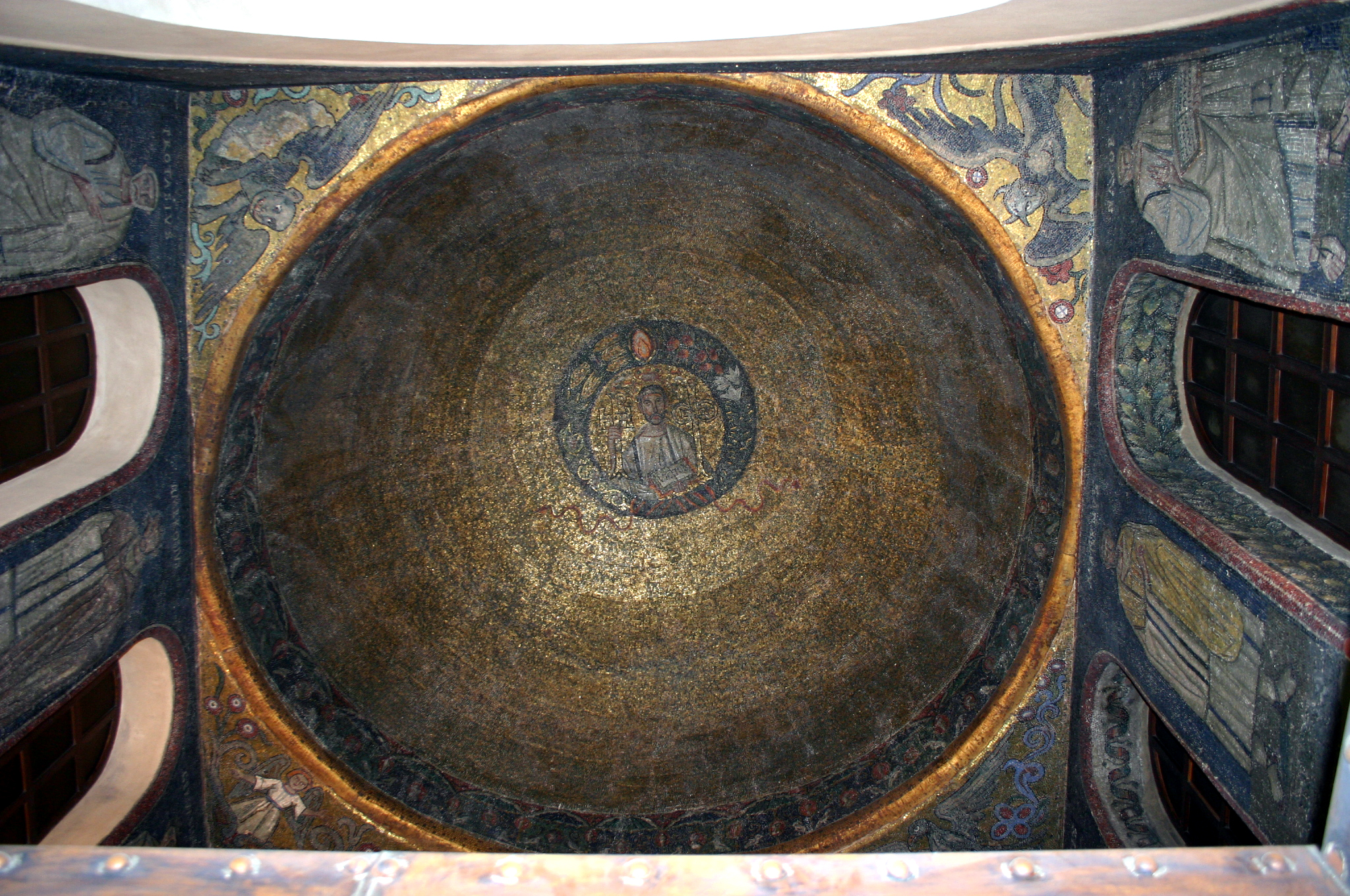 Milan (Italy). The dome of the shrine of San Vittore in ciel d'oro, now a chapel of Sant'Ambrogio basilica. The building dates back to the 4th century, the mosaic to the second half of the 5th century. In the centre, Saint Victor. Picture by Giovanni Dall'Orto, April 25 2007.